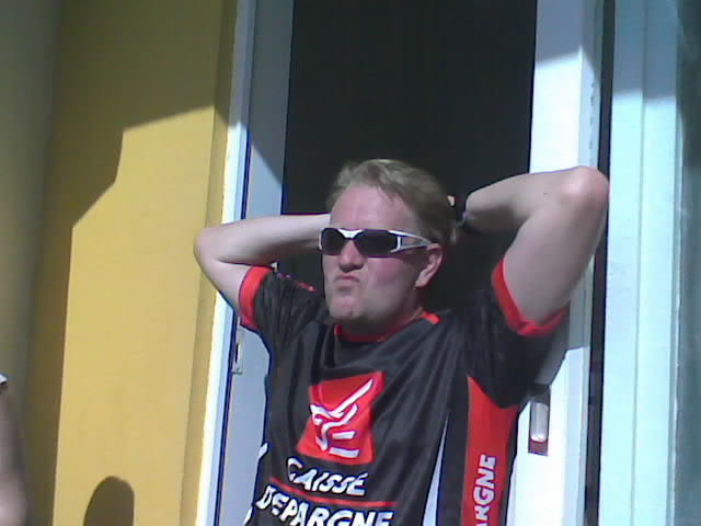 Cycling training camp Tenerife, January 2011